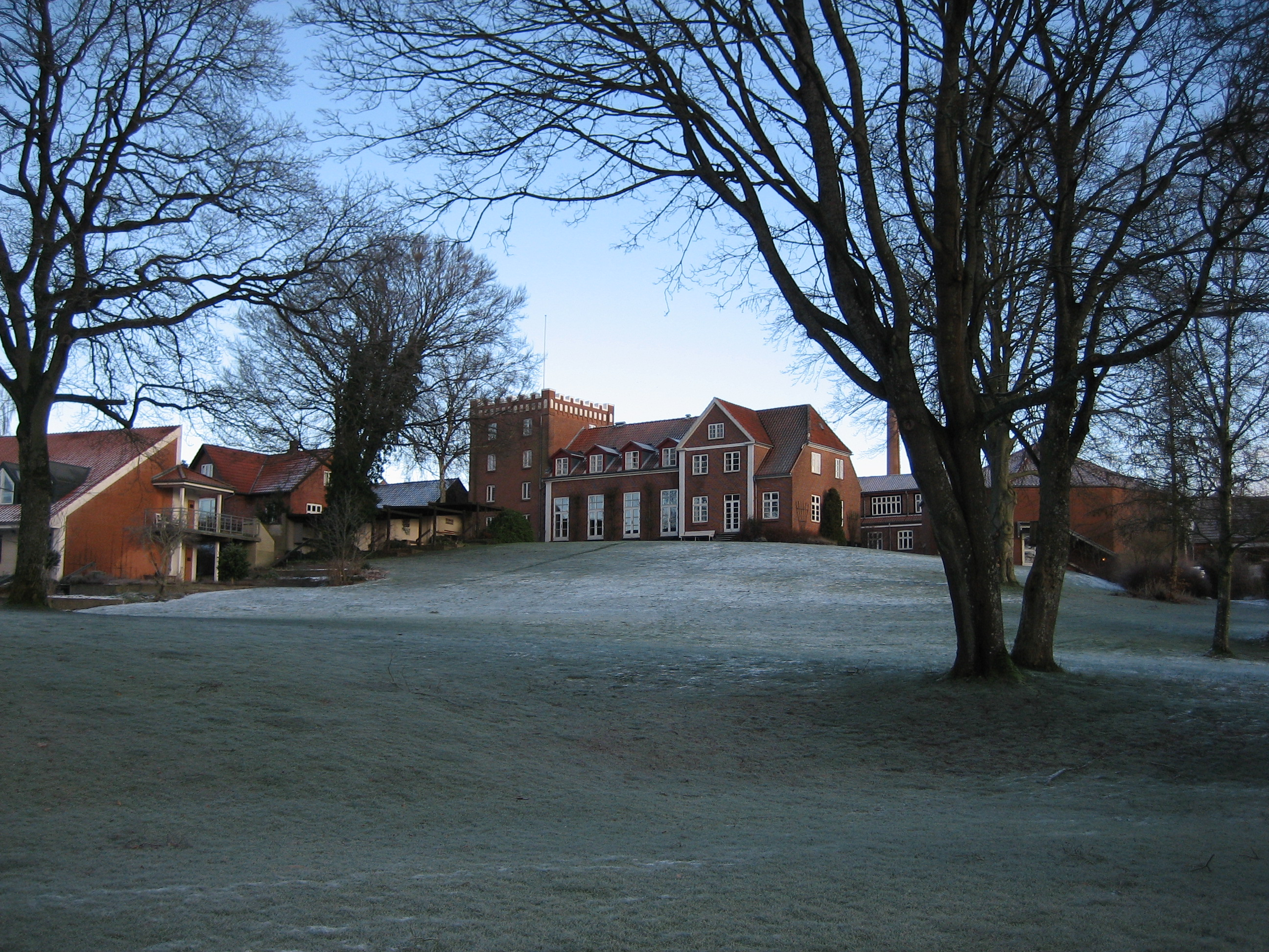 Ry Højskole in the winther